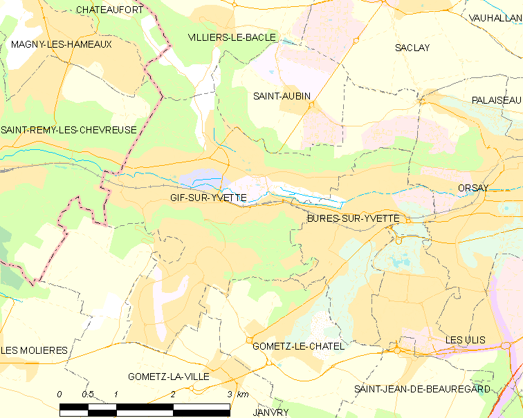 Map of French municipality Gif-sur-Yvette